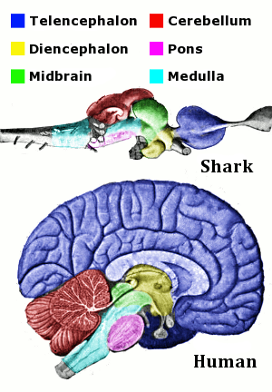 Main regions of the vertebrate brain, shown for a shark and a human brain (the human brain is sliced along the midline). The two brains are not on the same scale.